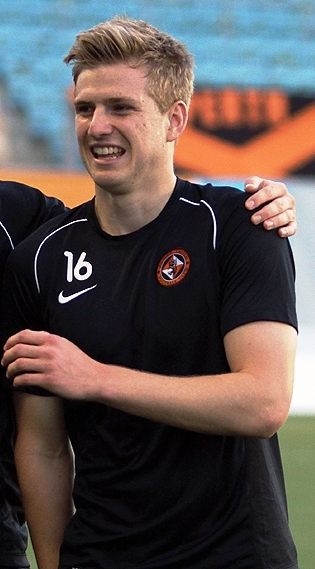 Stuart Armstrong (born 30 March 1992 in Inverness) is a Scottish footballer.